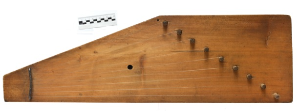 Gusli from Novgorod region (Northwest Russia)